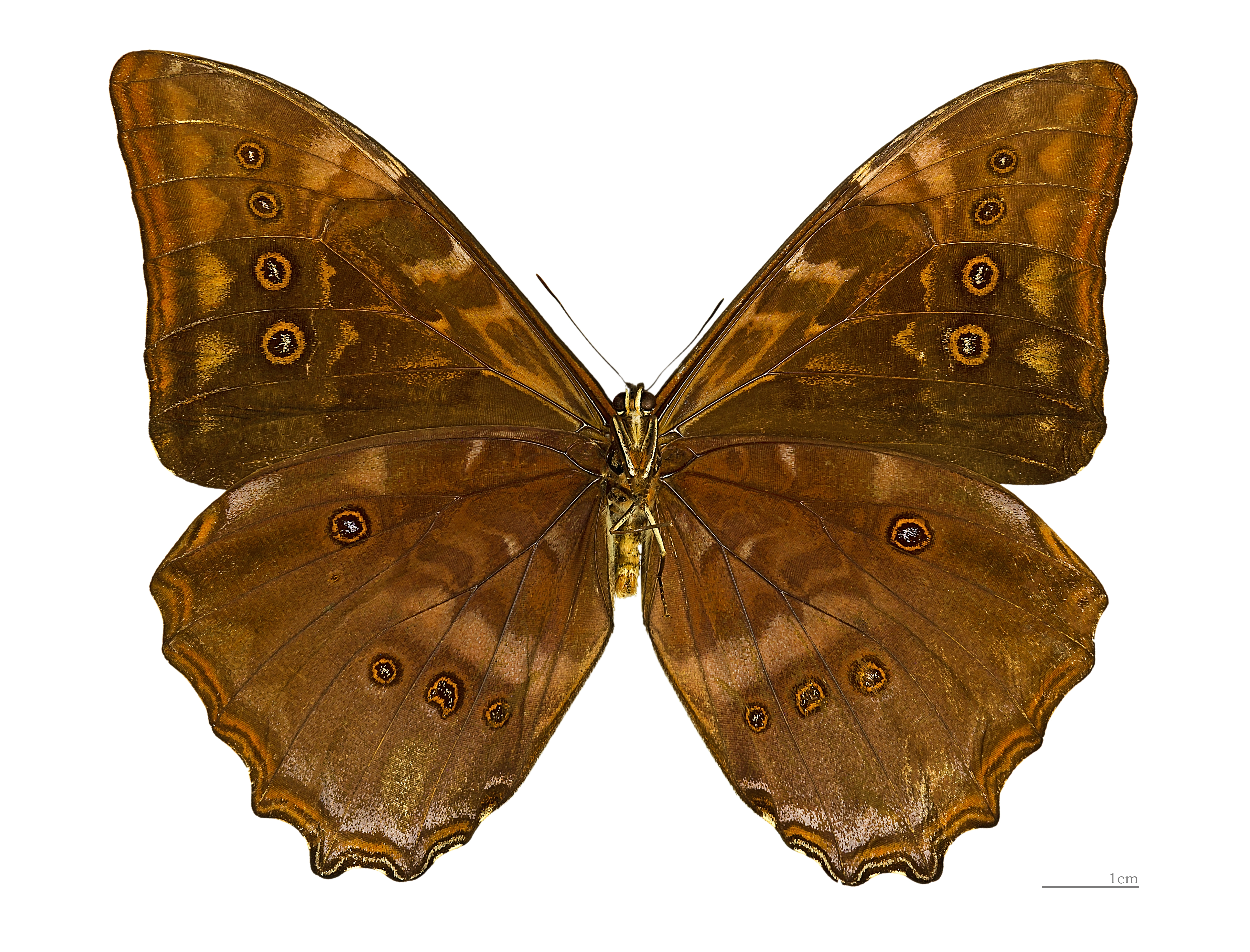 Morpho telemachus telemachus - △ Ventral side